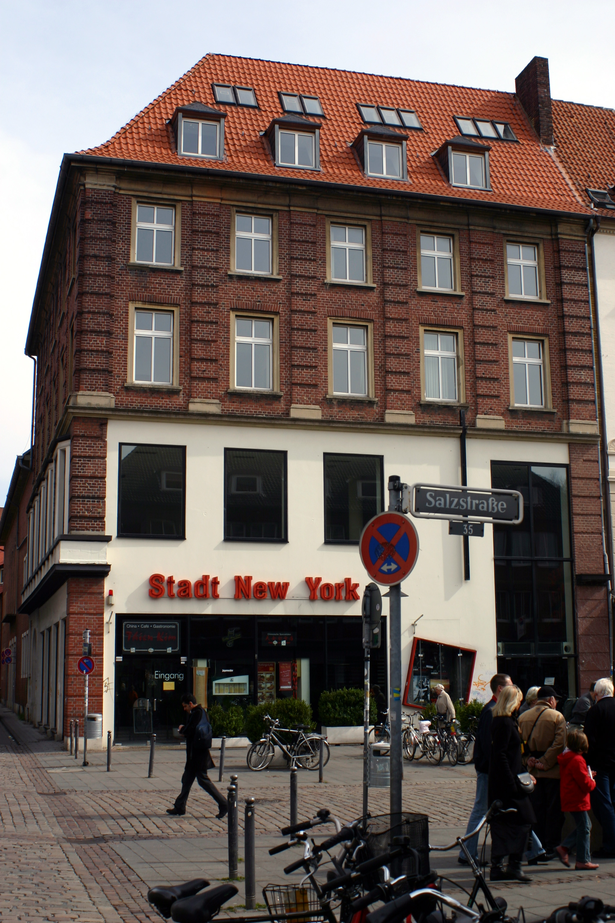 "Stadt New York" ciname in Münster, Germany